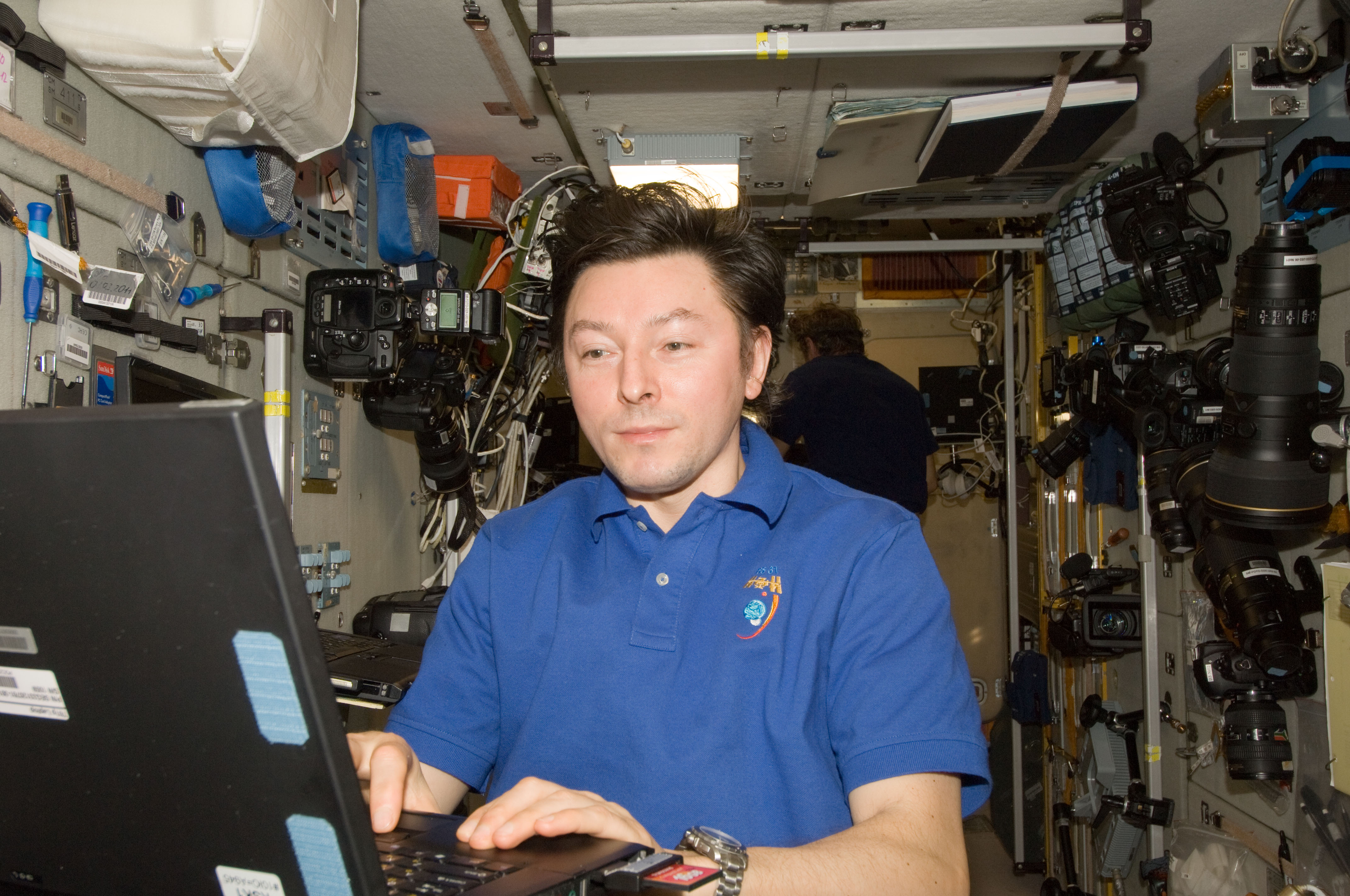 Russian cosmonaut Sergei Revin, Expedition 32 flight engineer, uses a computer in the Zvezda Service Module of the International Space Station.